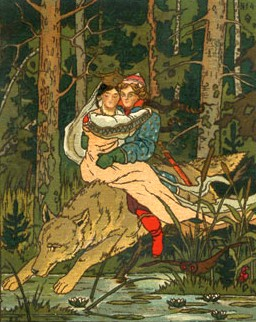 Postcard. The character from a Russian fairy tale